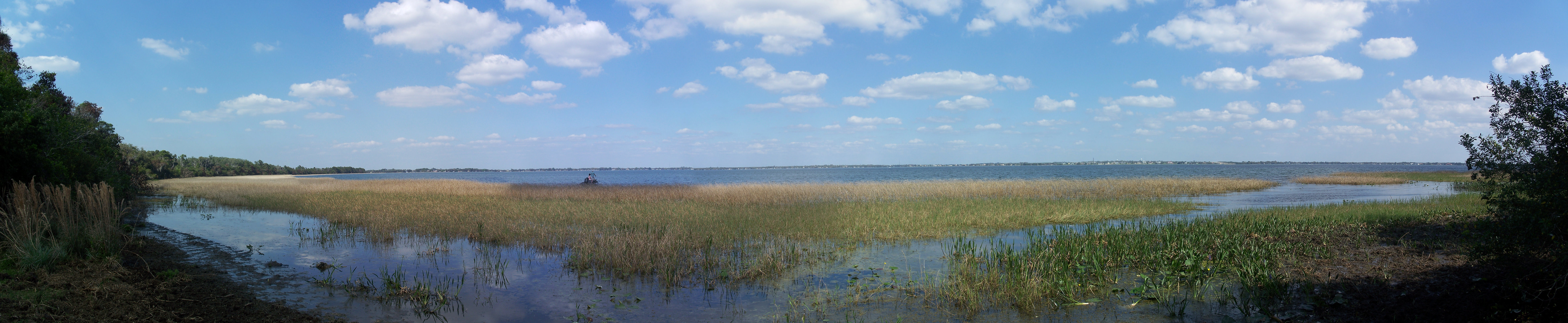 Lake June in Winter Scrub State Park: Panorama of Lake June in Winter